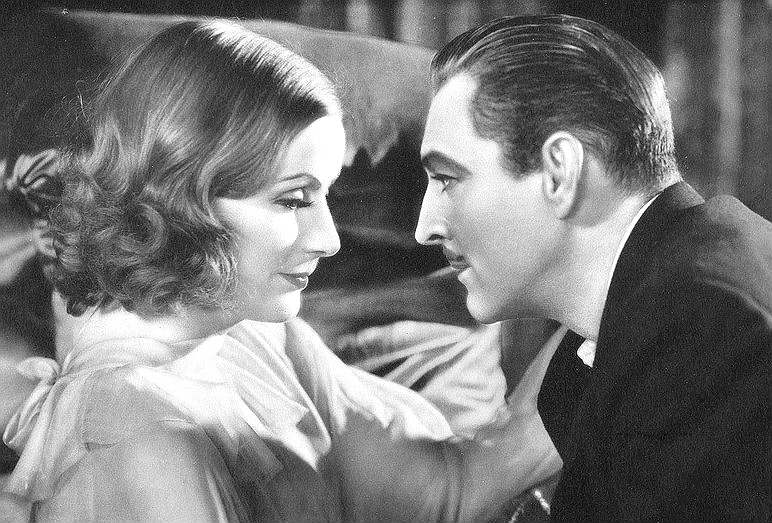 Scene from the 1932 film Grand Hotel. Pictured are John Barrymore and Greta Garbo. The still is derived from this PD item: .